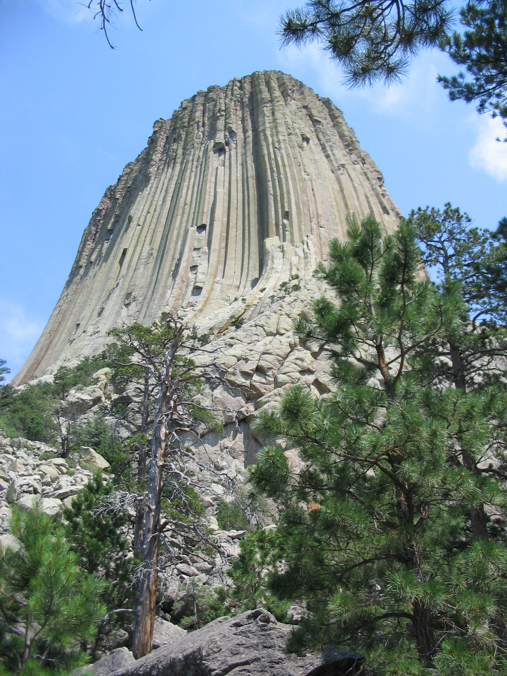 Devil's Tower Wyoming